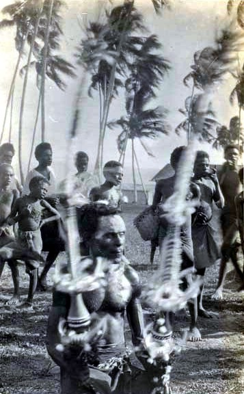 Dancers of the Tolai people, Malakuna near the town of Rabaul, Gazelle Peninsula of New Britain, Papua New Guinea. c 1918. Private photograph printed on Kodak Austral stock.